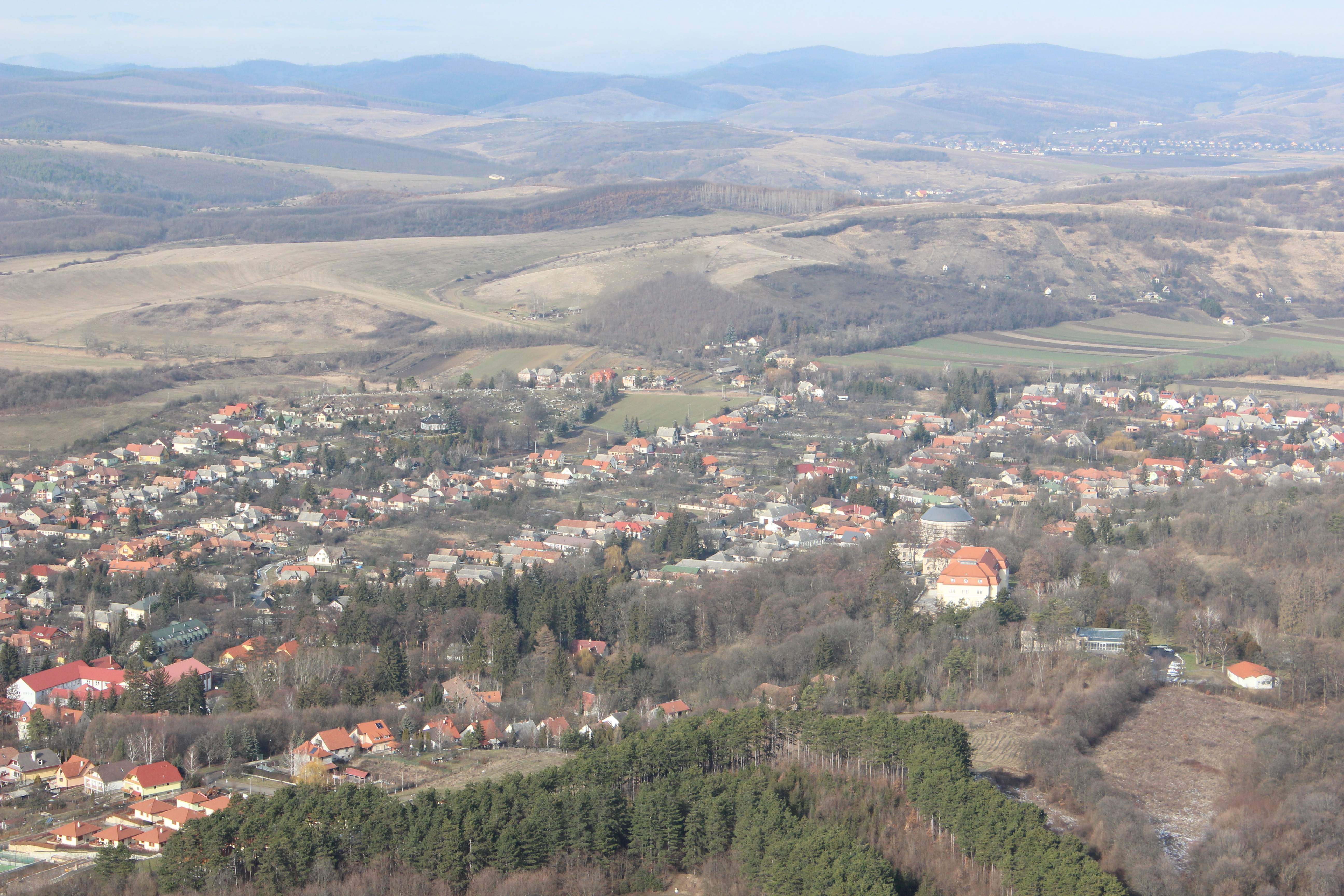 View of Szilvásvárad from lookout tower on Kalapat Hill. Szilvásvárad, Hungary.